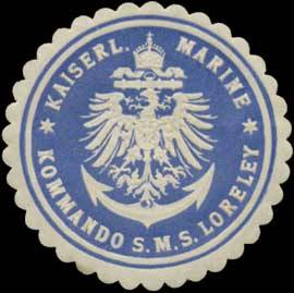 Sealing stamp Title: K. Marine Kommando S.M.S. Loreley Description: Schiff Place: size: cm